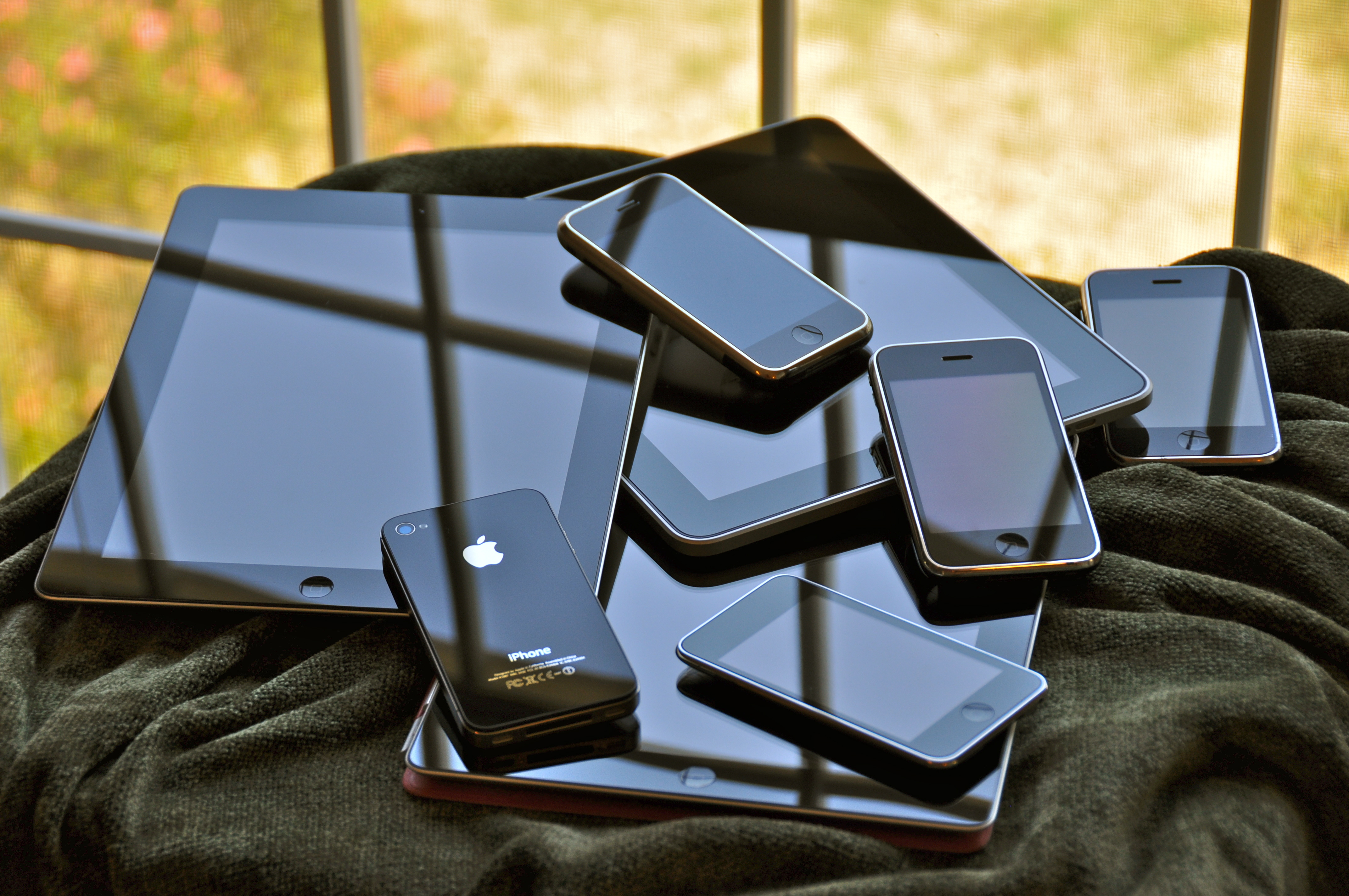 Notably absent is the poor lost iPhone 4. And the Apple TV (2nd gen) in the other room, strictly speaking. Top to bottom... iPads: iPad, iPad 2, iPad (3rd gen) and smaller: iPhone (orig), iPhone 3G, iPhone 3GS, iPhone 4S, iPod touch (2nd gen)